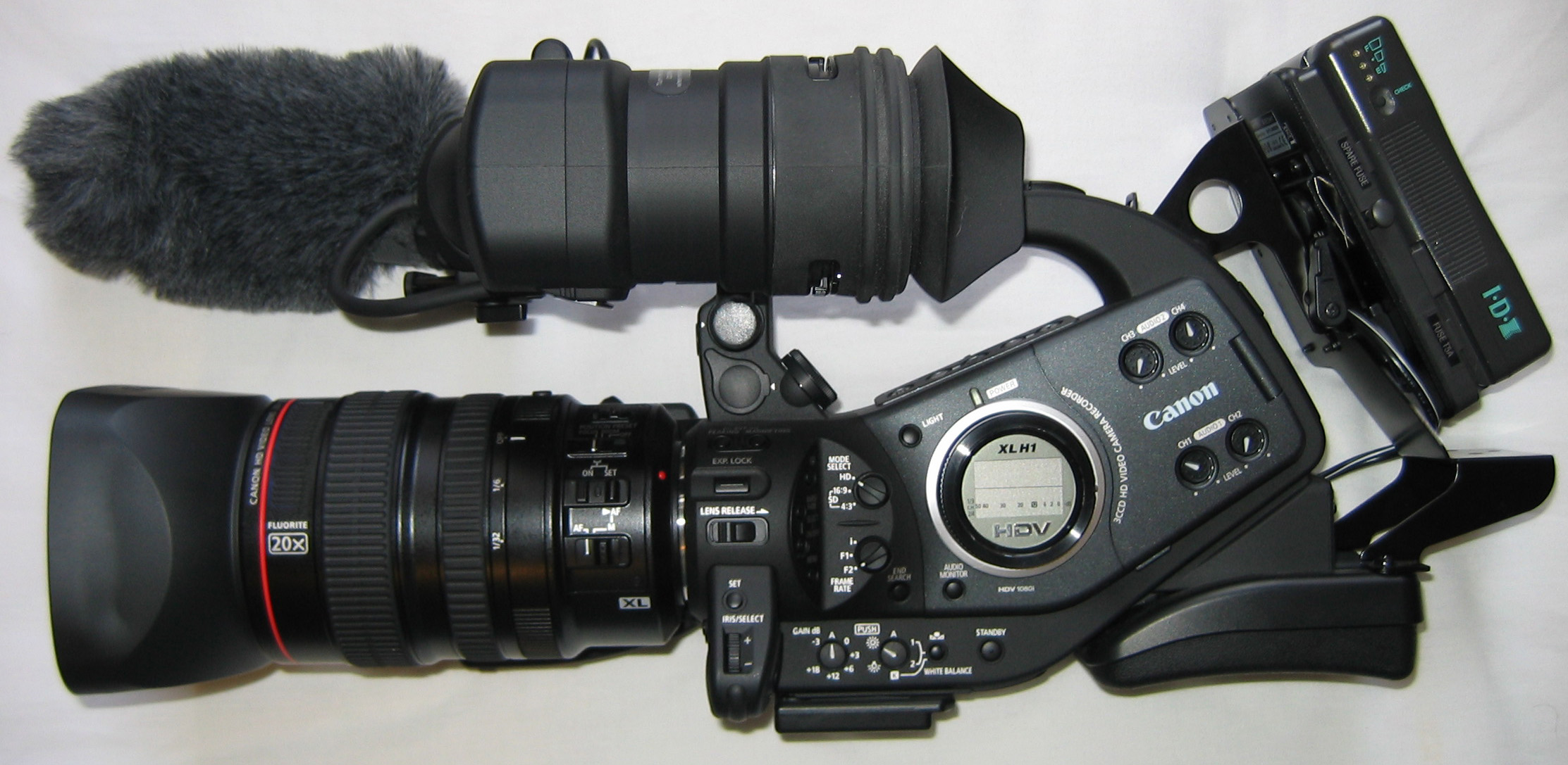 This Canon XLH1 HDTV camera records HD using three 1440x1080i sensors, with a native aspect ratio of 16:9 using non-square pixels of aspect ratio 1:1.333. It has several standard uncompressed outputs for connection to HD VTRs, along with a built in mini-DV deck.